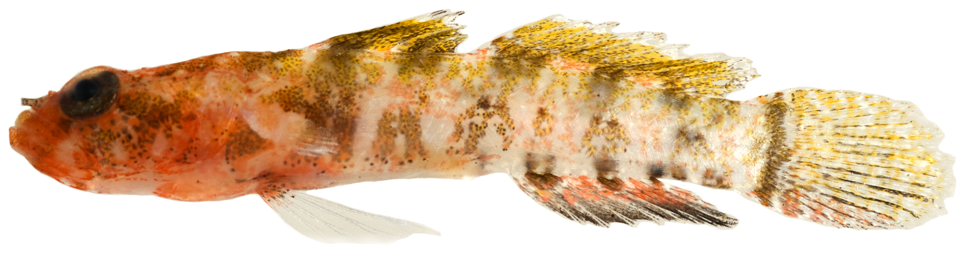 Pycnomma roosevelti Ginsburg, 1939 —Roosevelt's goby, 14.6 mm SL, adult. Photo by JT Williams.